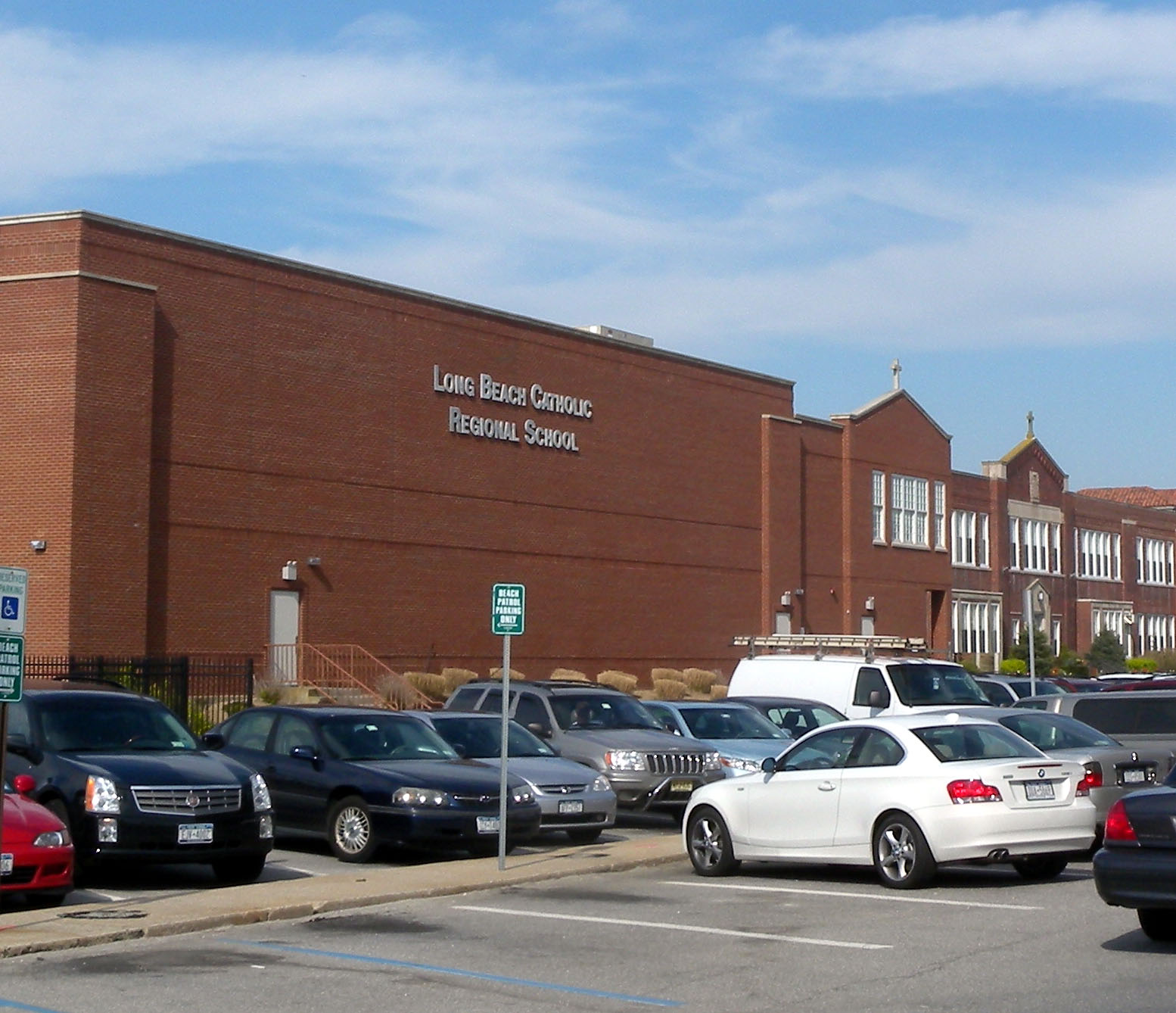 Looking northeast at Long Beach Catholic Regional School on a sunny afternoon.